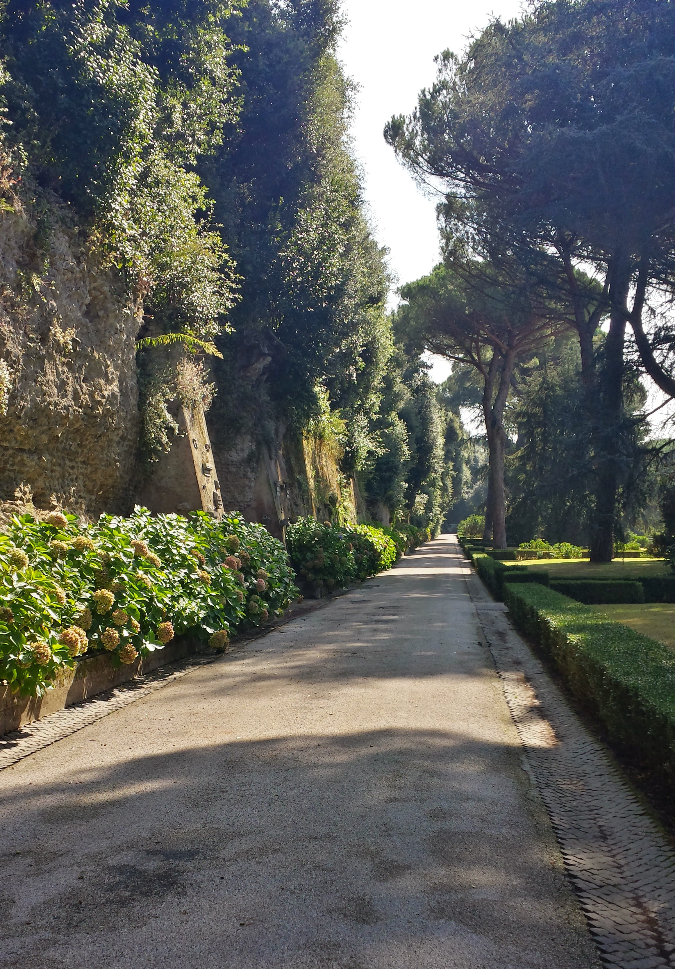 View along the Viale dei Ninfei within the gardens of the Papl summer residence of Castel Gandolfo. Left of the alley the retaining walls of the uppermost level of the ancient villa of Emperor Domitian can be seen. The alley itself is located at the medium level, the Giardini del Belvedere (which cannot be seen on this picture) lie on the lowest level of Domitian's villa.